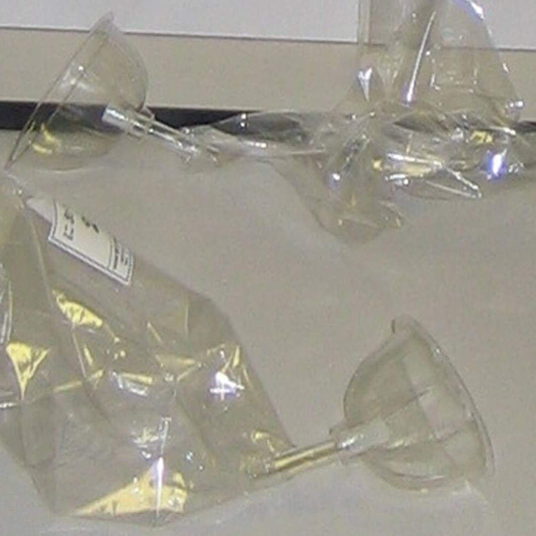 Triangle Odor Bag Method (5)